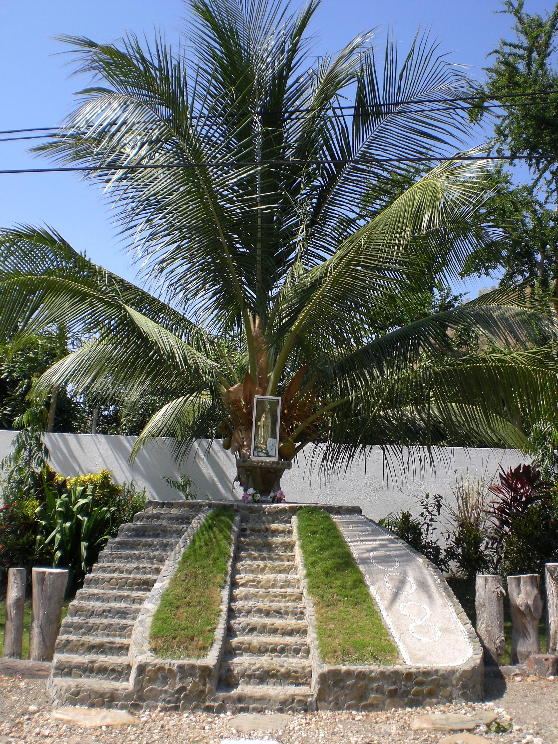 memorial place for the 2008 East Timorese assassination attempts where the attempt occurred